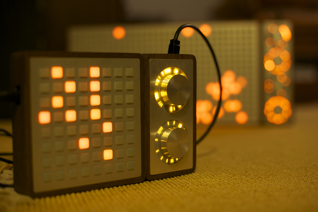 monome Father, Mother, Son & Daughter